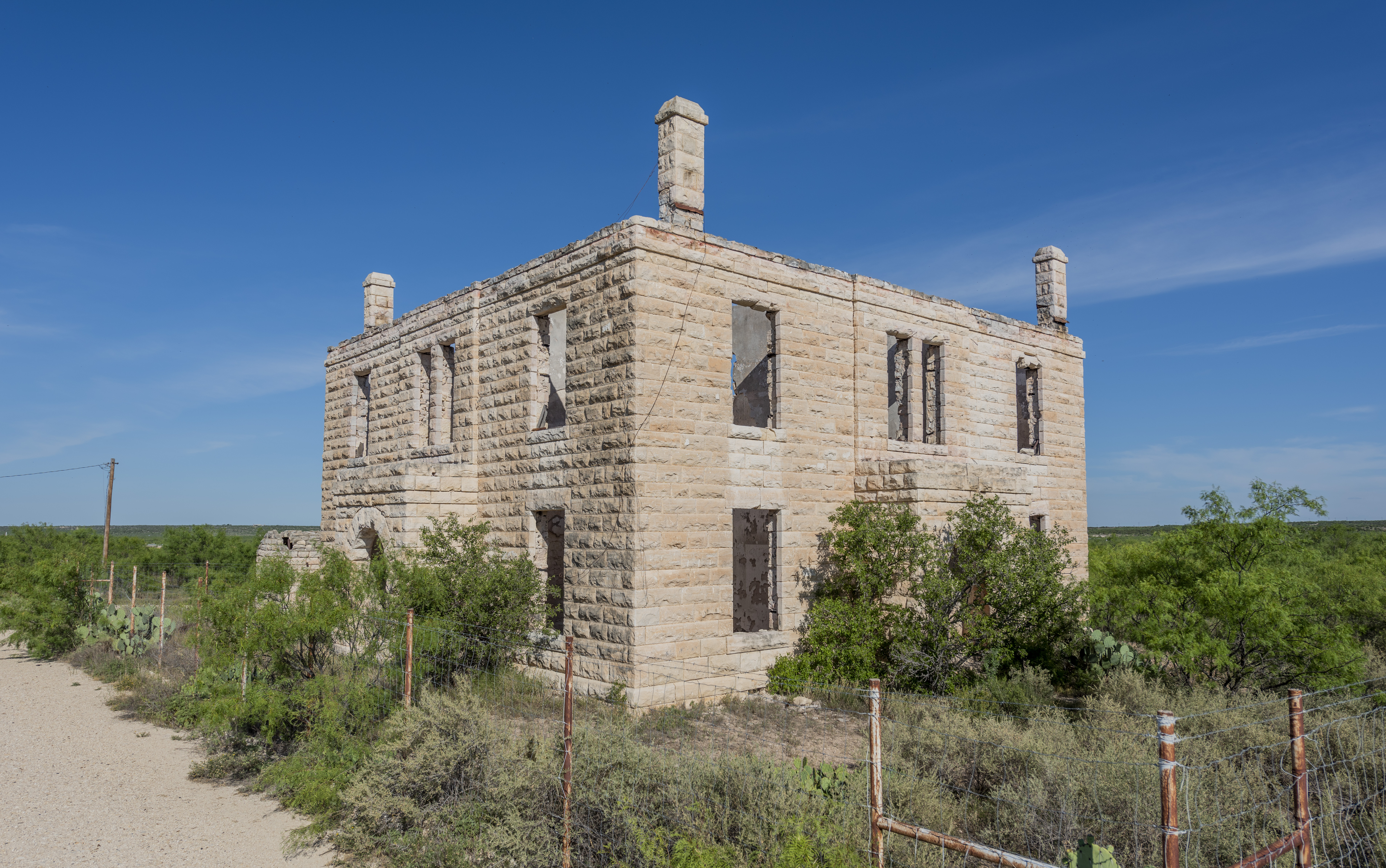 Image of the original Reagan County courthouse located in Stiles, Texas. Taken in May 2020.